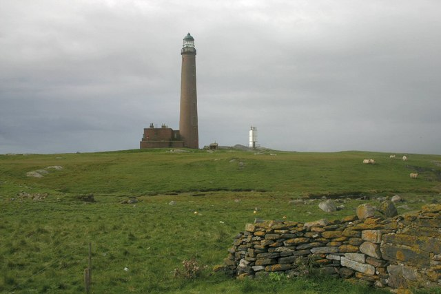 The lighthouses on Shillay, Monach Islands/Heisgeir. The old lighthouse became redundant in 1942; the newer light was installed in 1997.